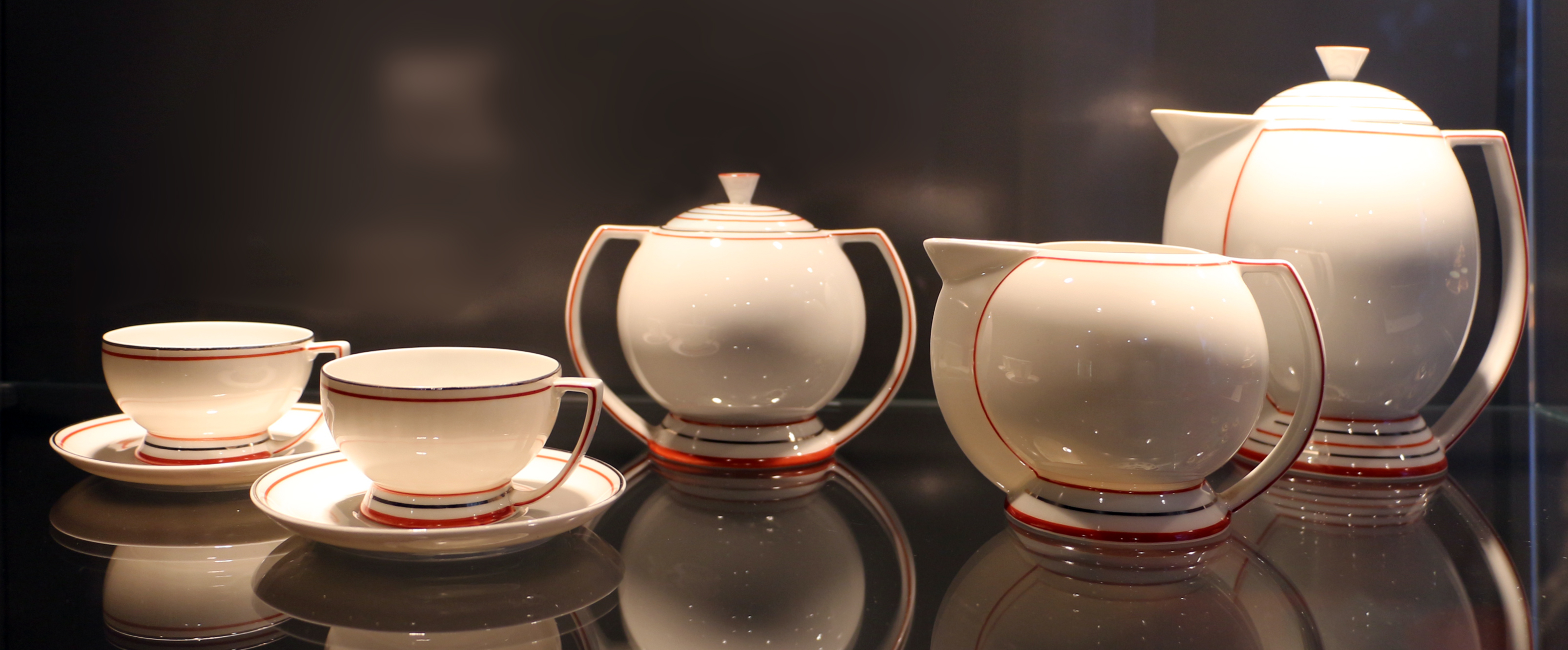 Wolfsoniana